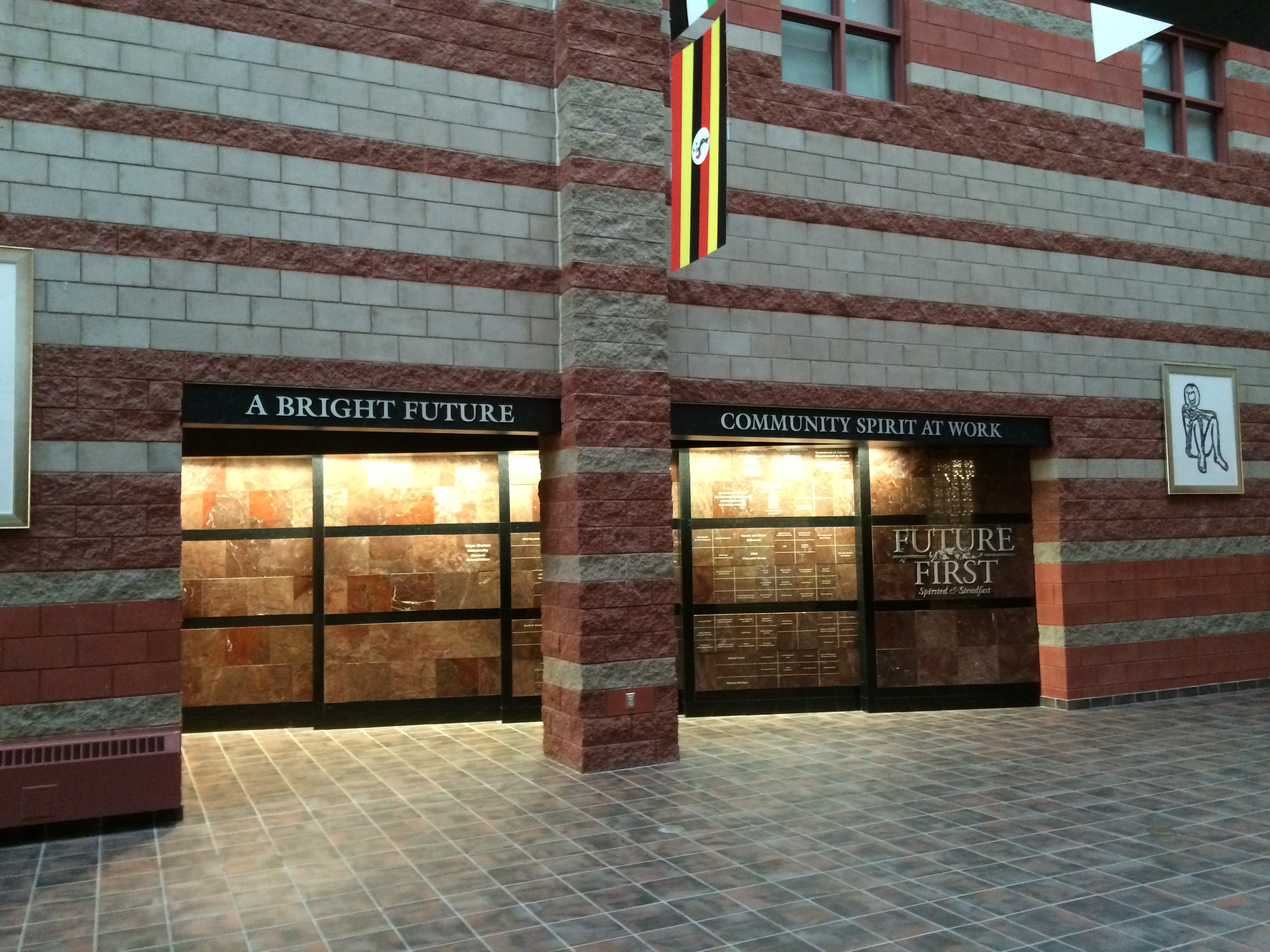 Centre includes Folklore Department, Rotary Music Performance Room, Seminar Room, & Digitization Lab.